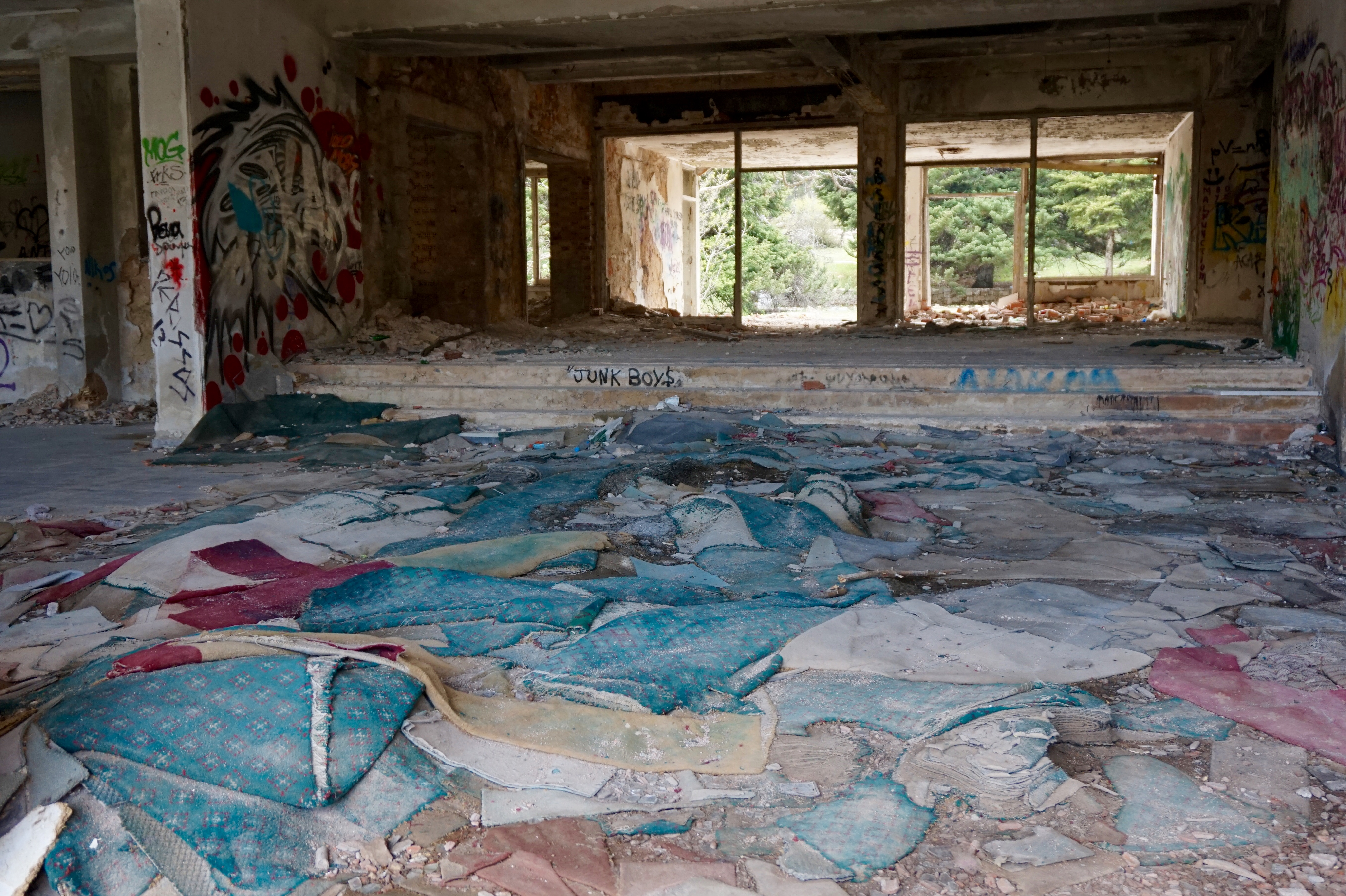 This is a photography of Natura 2000 protected area with ID GR3000001